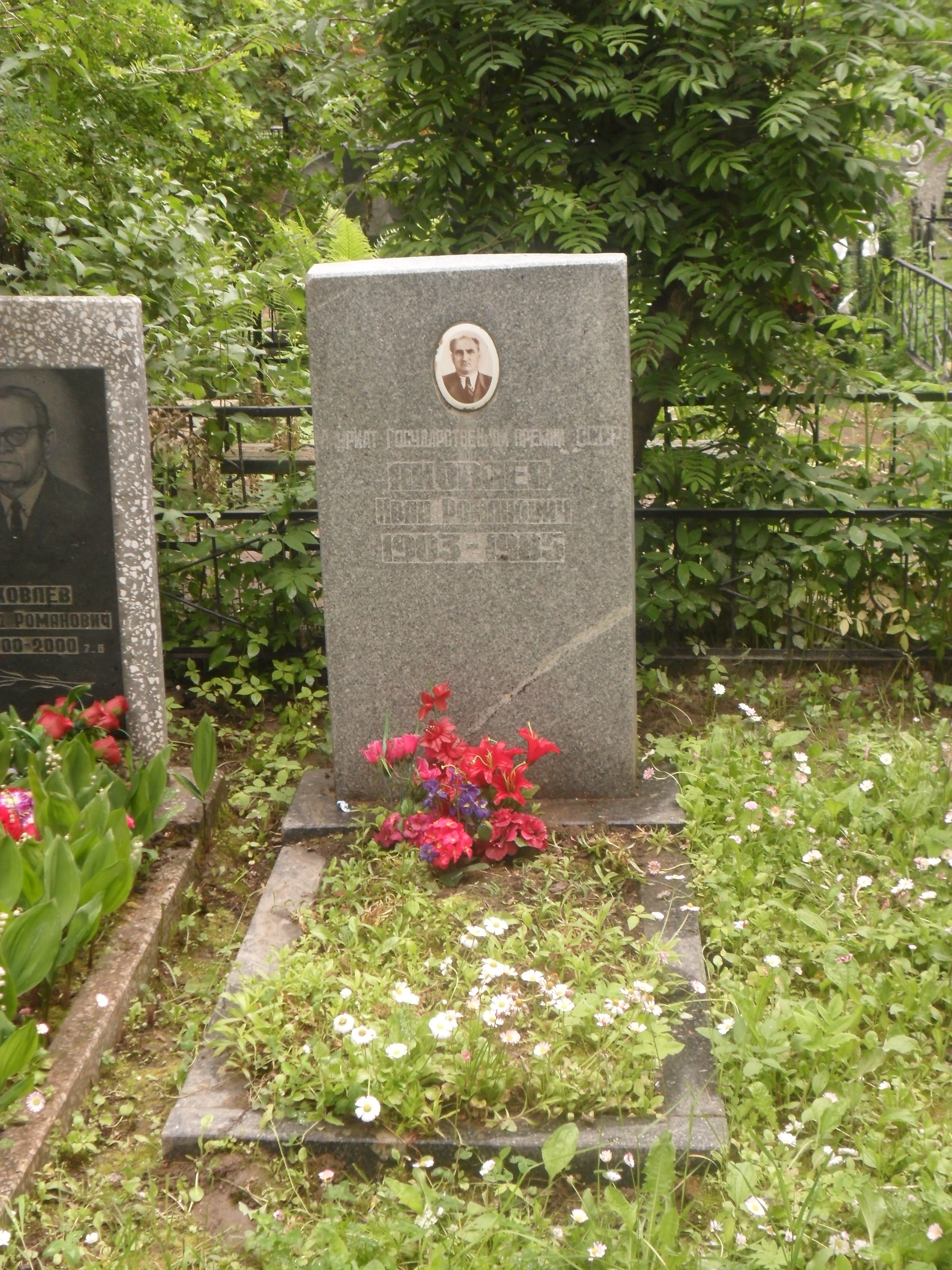 Tomb of the USSR State Prize Ivan Yakovlev on the New Cemetery in Smolensk.